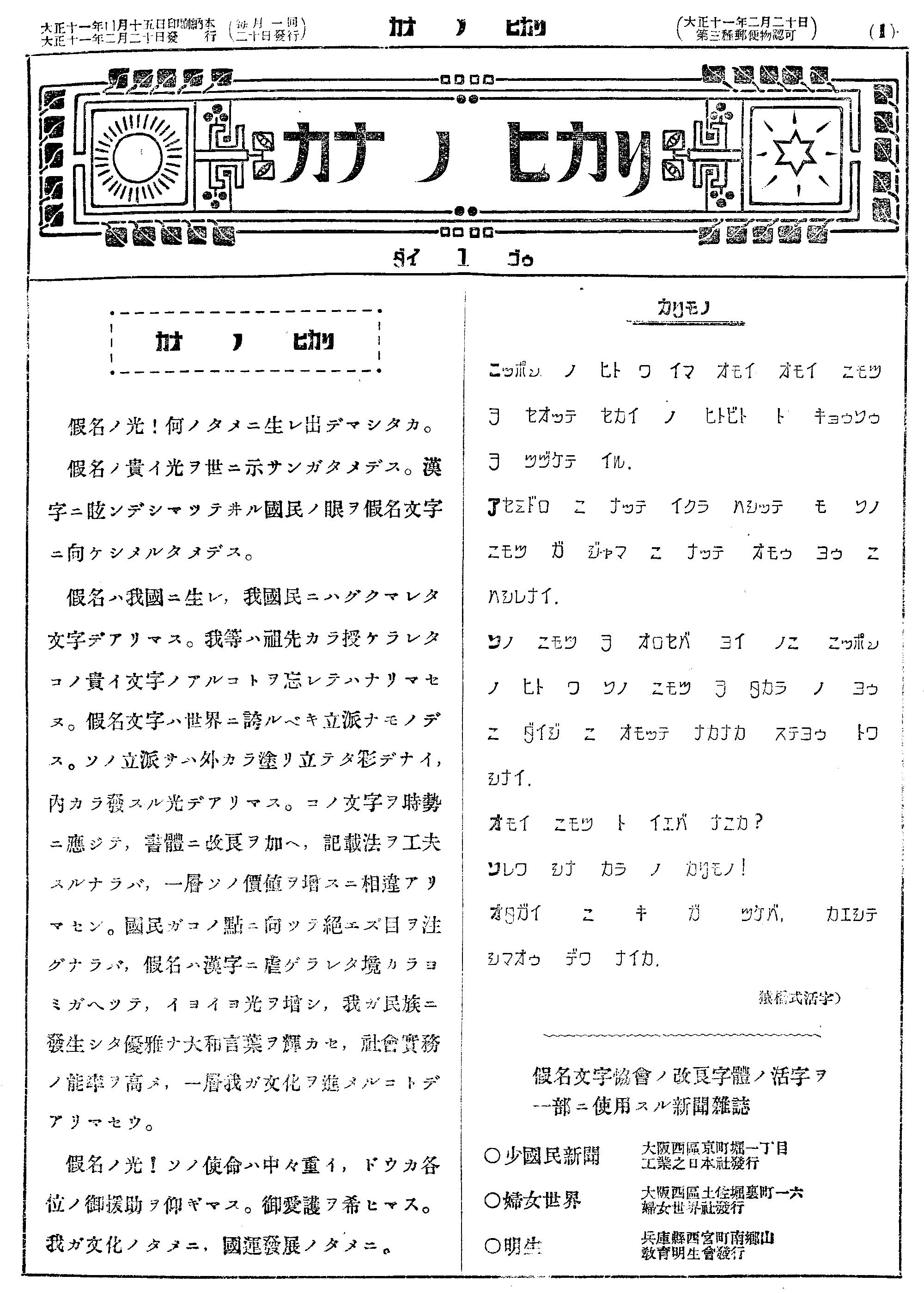 Kana no Hikari, number 1, page 1. The Kana no Hikari [Light of Kana] is the bulletin of Kanamozikai. This image was obtained through scanning at 300 dpi.